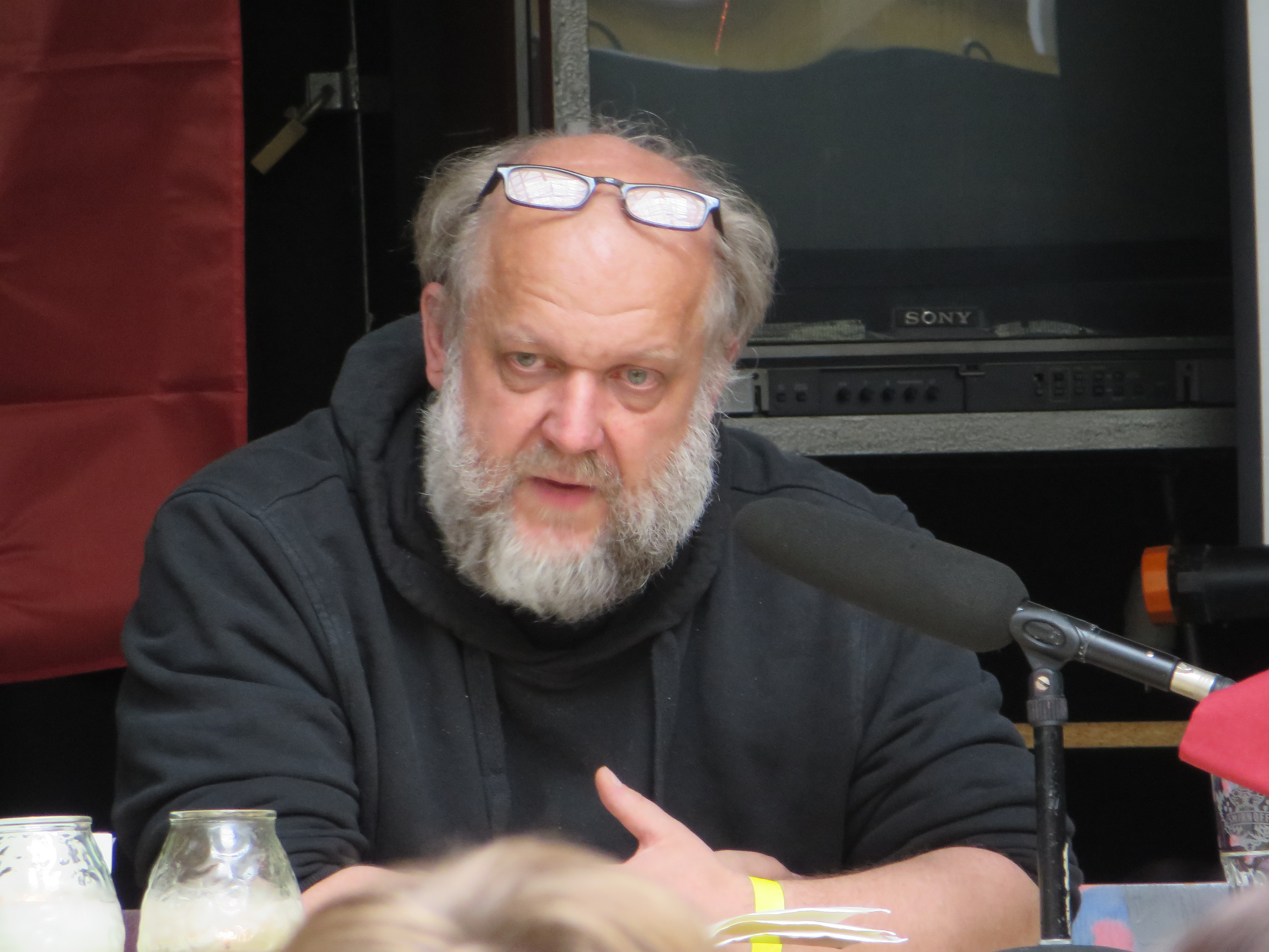 Jürgen Mümken at Libertarian media fair (LiMesse) 2014 in cultural center Zeche Carl in Essen, GermanyEsperanto: Jürgen Mümken ĉe Liberecana komunikilfoiro (LiMesse) 2014 en kulturdomo Zeche Carl en Essen, Germanio